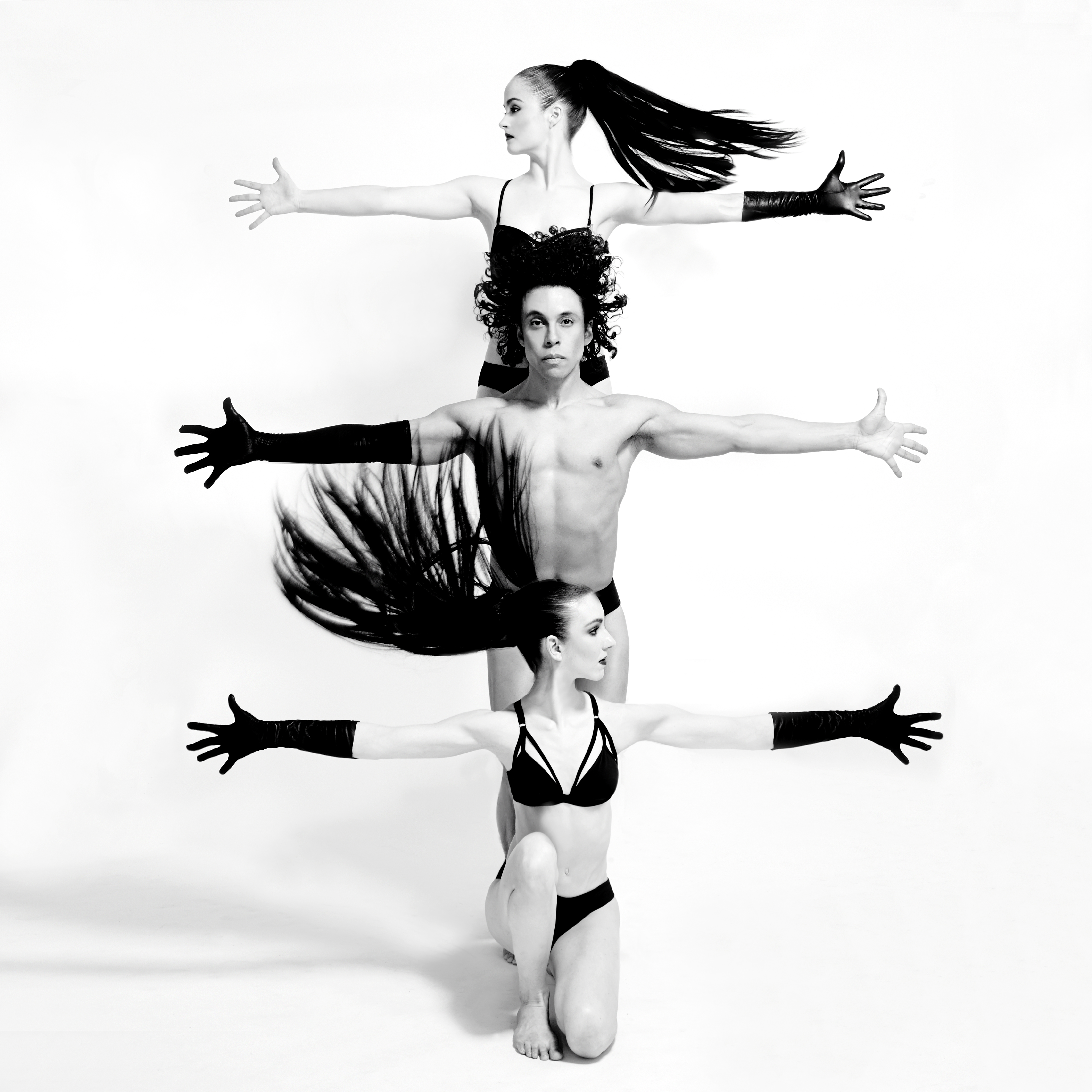 Steven Menendez photoshoot 2017